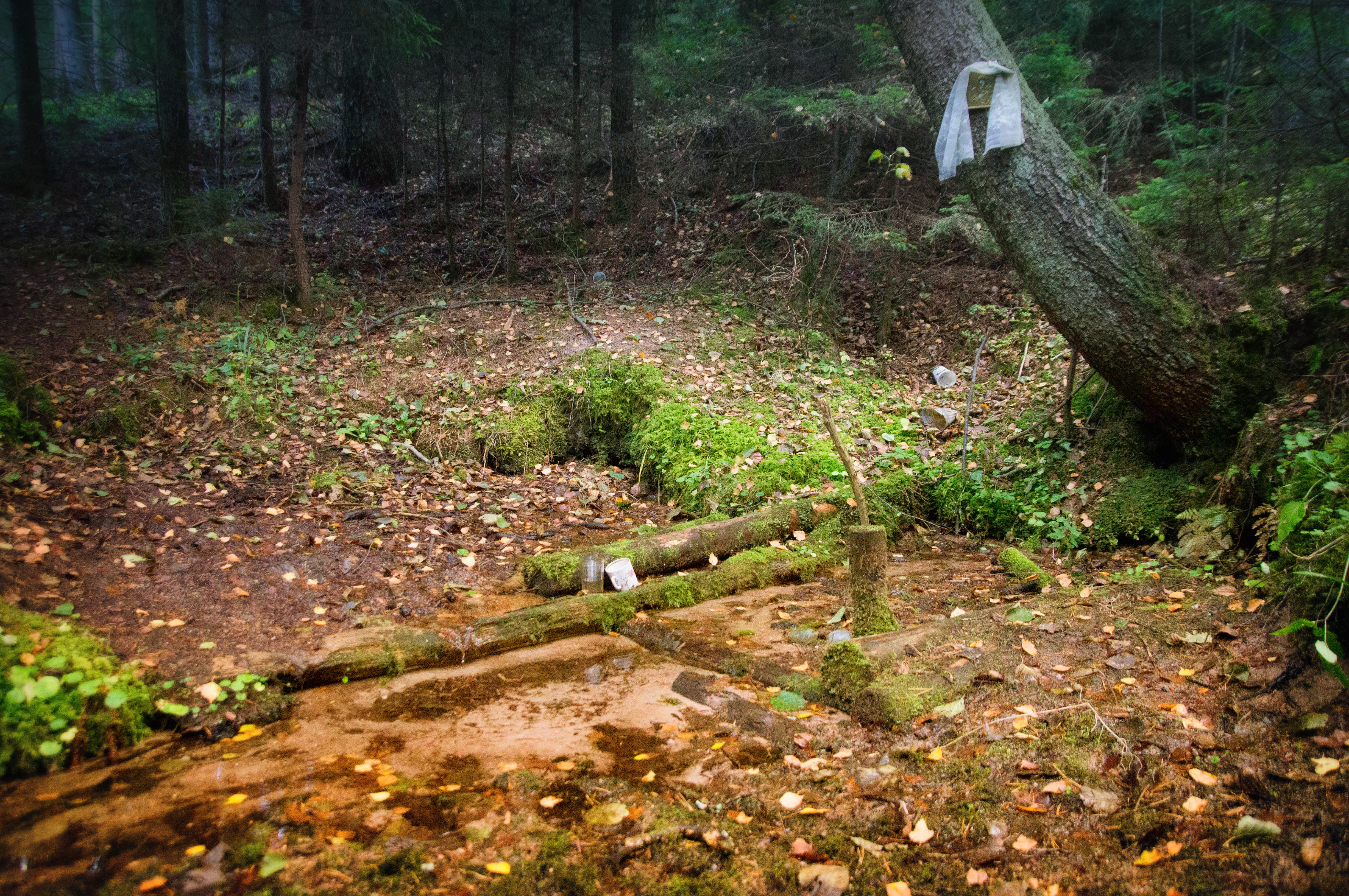 The spring "Holy Water" near the village of Huby, Vileyka district, is a hydrological natural monument of local significance.